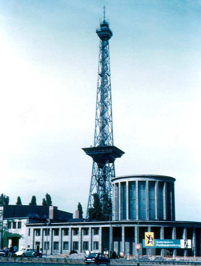 The Radio Tower was built in 1926, in the western part of Berlin.